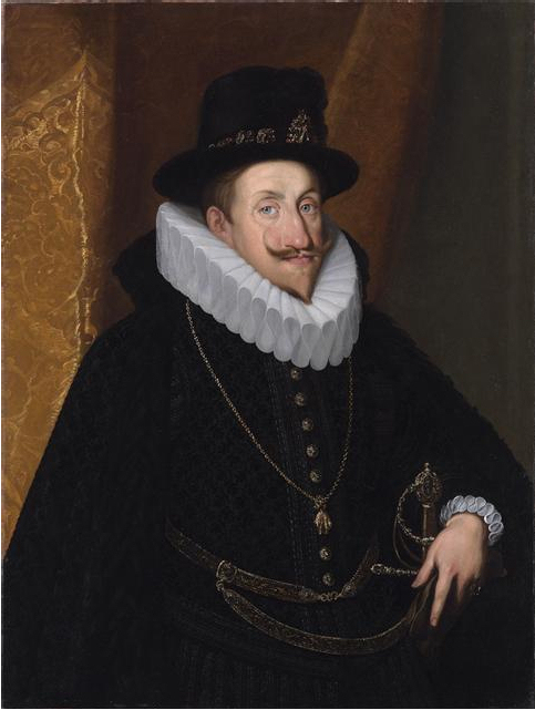 Portrait of Ferdinand II (1578–1637), King of Bohemia and later Hungary, Holy Roman Emperor